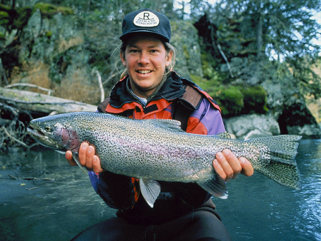 Man holding a rainbow trout (Oncorhynchus mykiss)